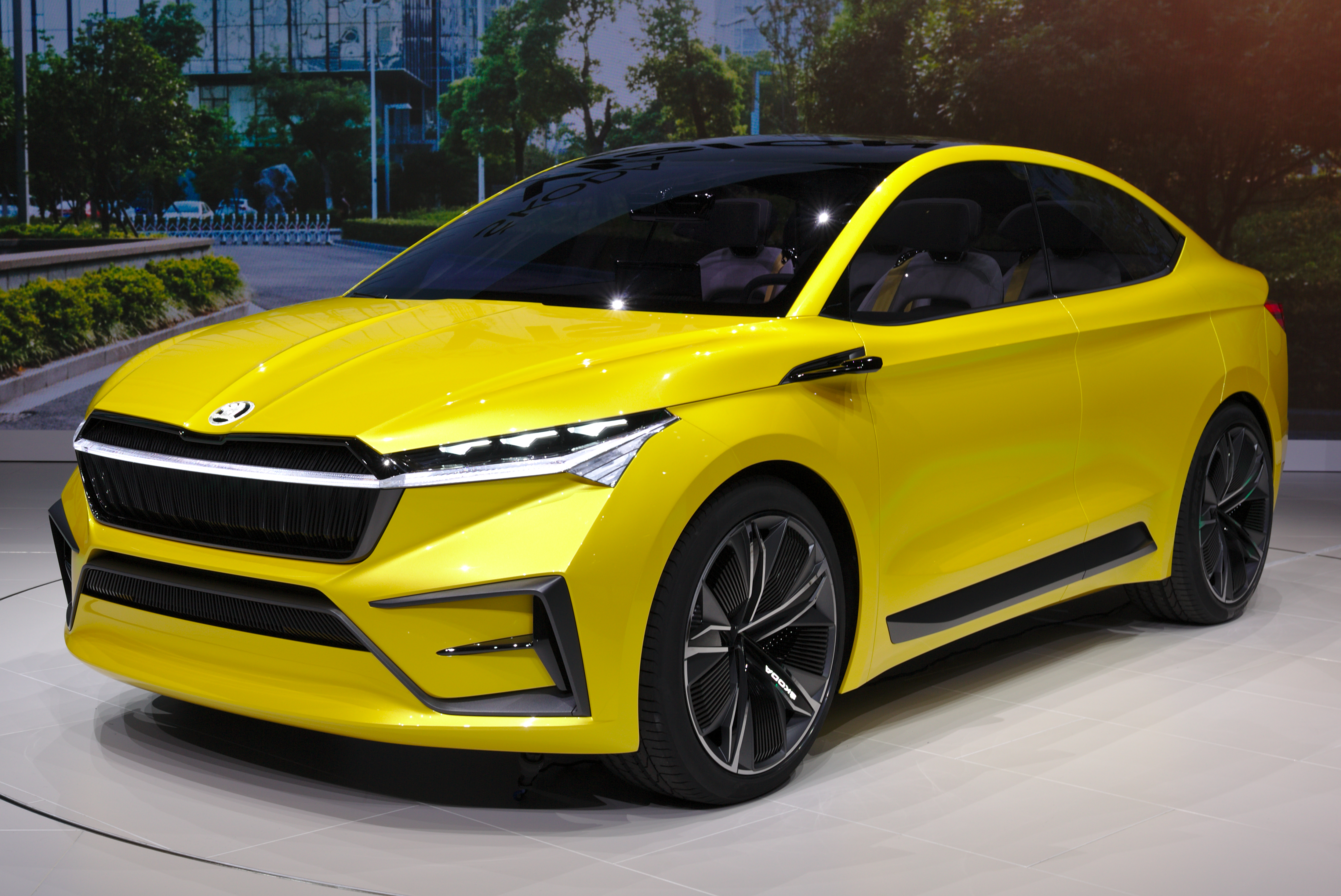 Skoda Vision iV at Geneva Motor Show 2019